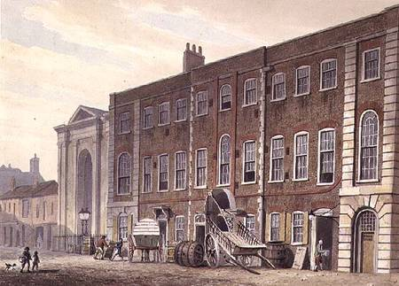 Watercolour of Lincoln's Inn Fields Theatre, now incorporated in the Royal College of Surgeons after its demolition in 1848. Guildhall Library.